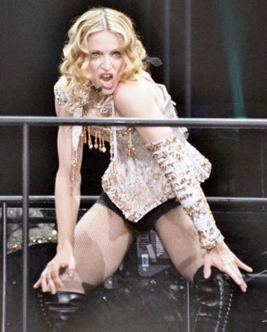 concert